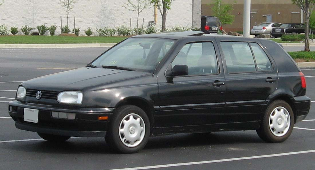 1993-1998 Volkswagen Golf photographed in USA.